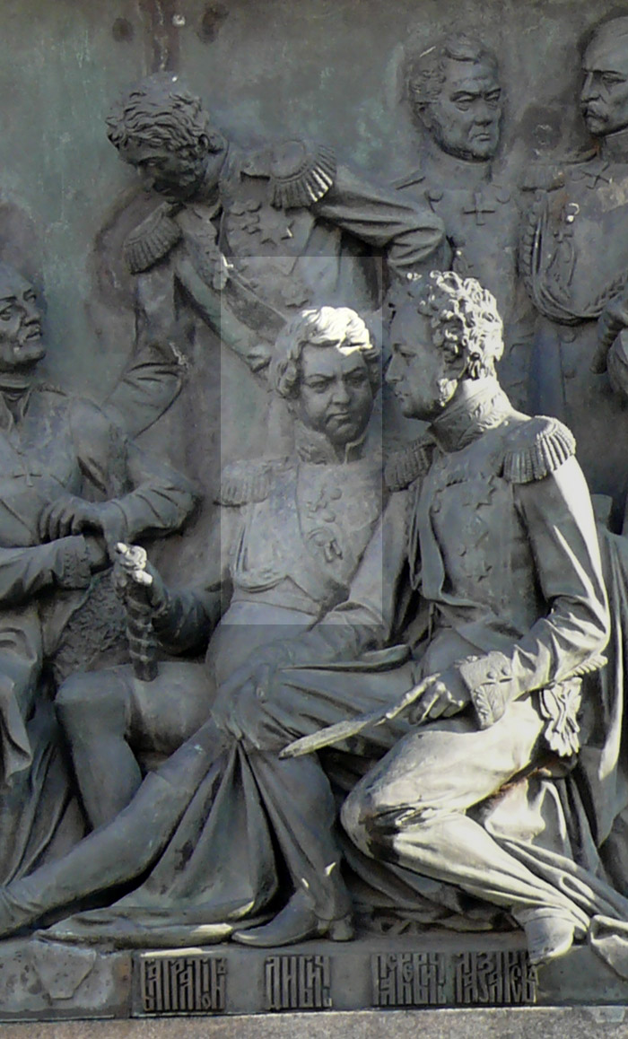 Hans Karl von Diebitsch on the Monument «Millennium of Russia» in Veliky Novgorod